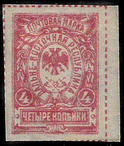 Russia Far Eastern Republic 1921, Vladivostok arms issue. Mint